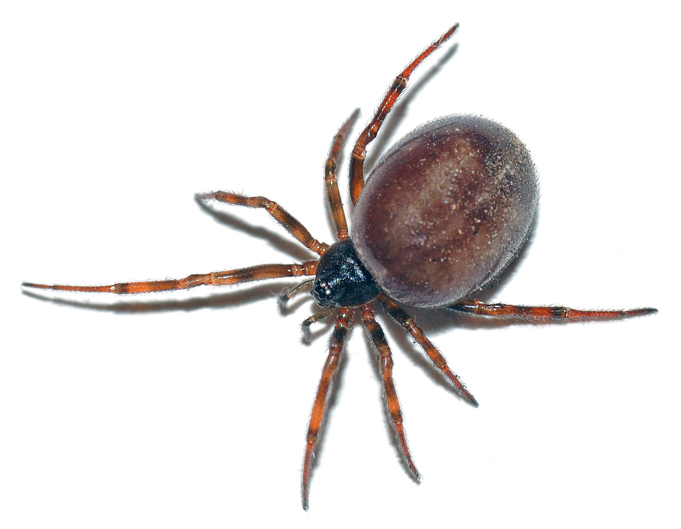 This image shows a female Steatoda spec. spider. Thanks to Kim for identifying the genus of this animal.